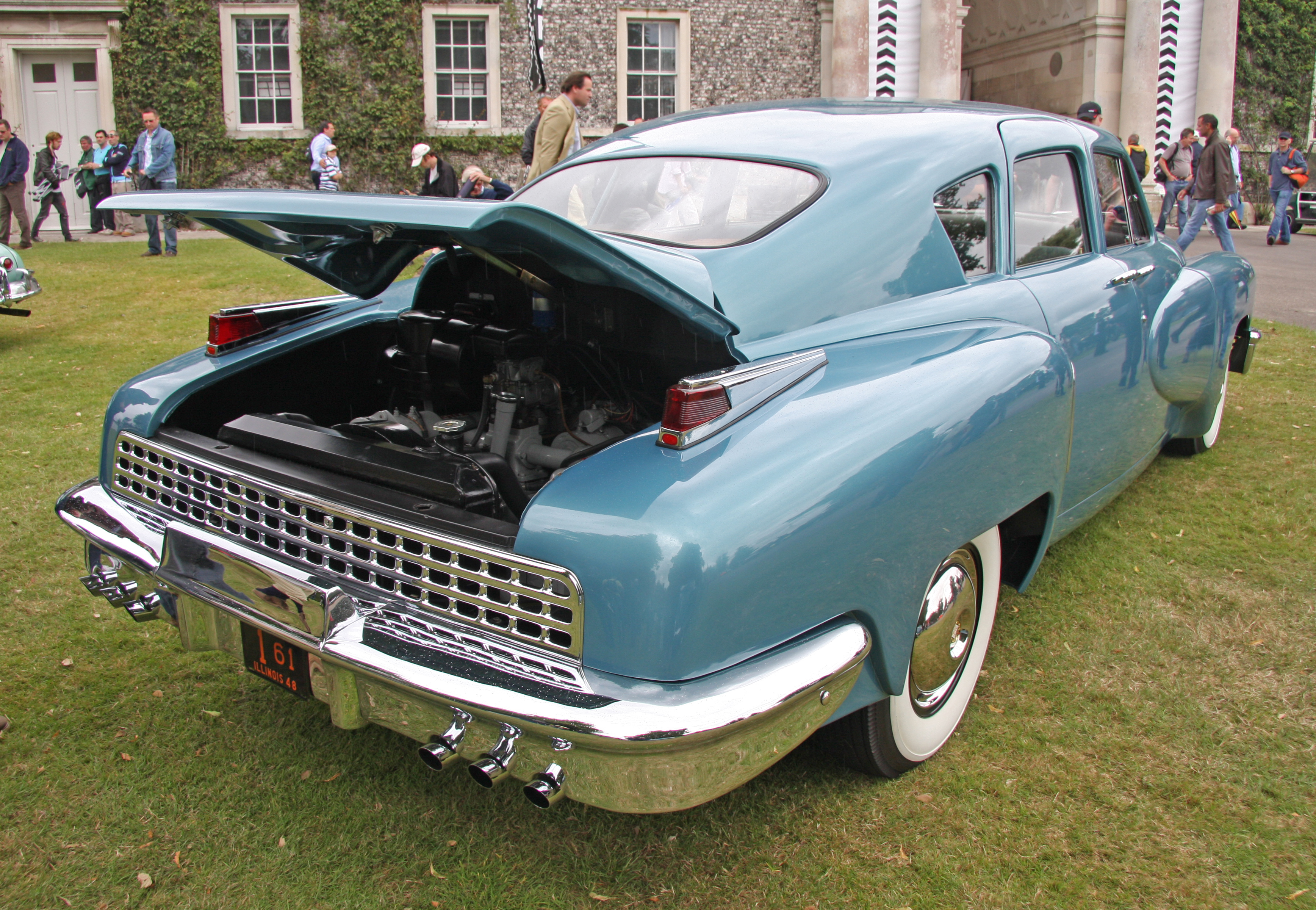 1948 Tucker Torpedo